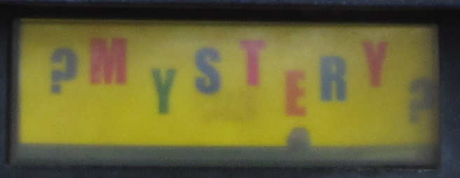 Coke machine on E. John St. in Capitol Hill, Seattle (2014)